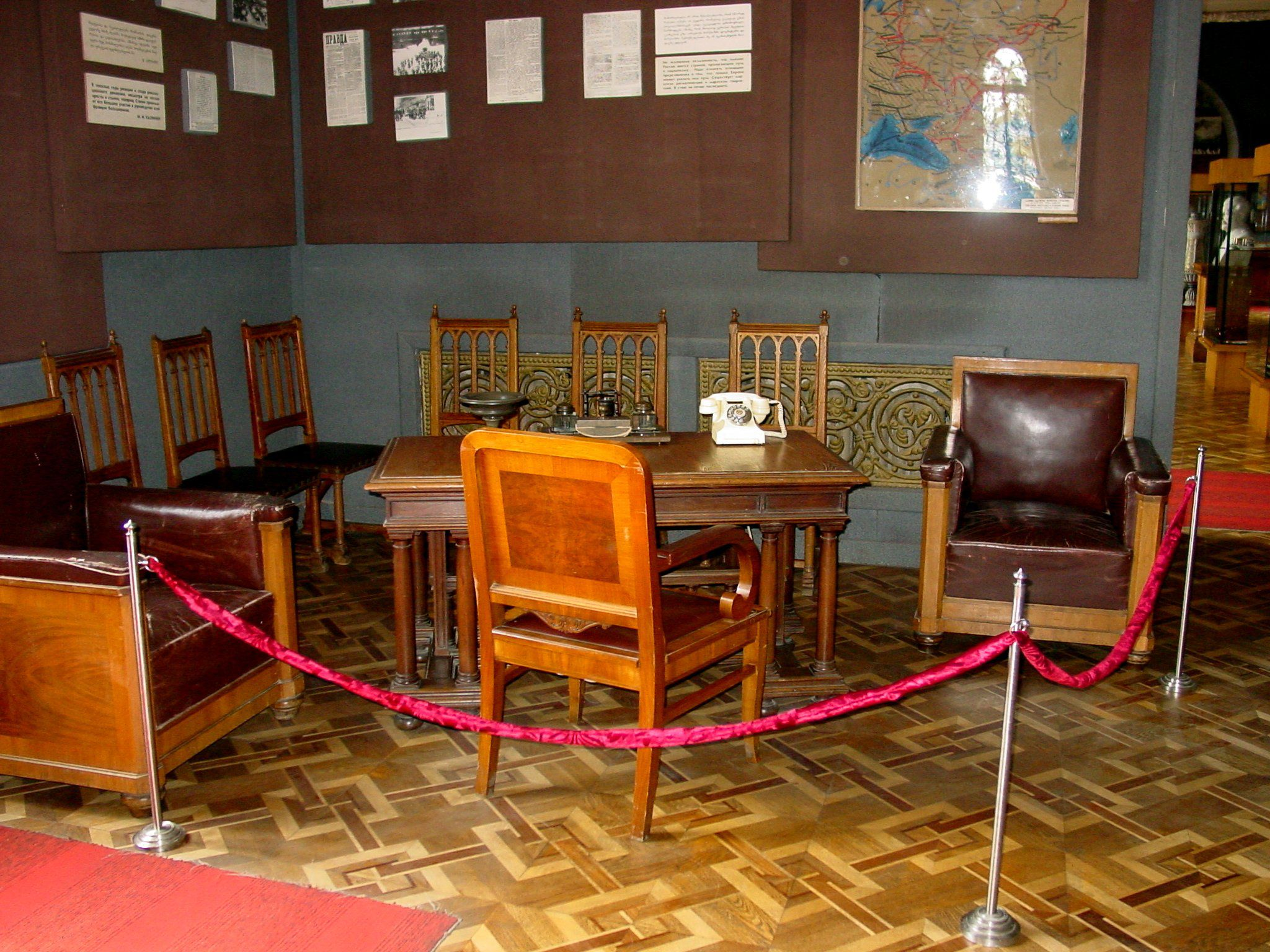 Only museum remaining in the world, dedicated to Stalin has his office furniture on display.